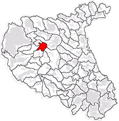 Limits of commune within Vrancea County